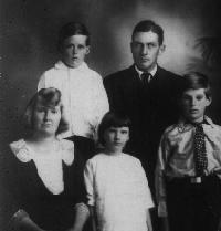 The American entomologist Alexandre Arsène Girault and family. Left to right: Elizabeth, Larry, Helen, Alexandre, and Ernest. Taken at Stanthorpe, Queensland, Australia